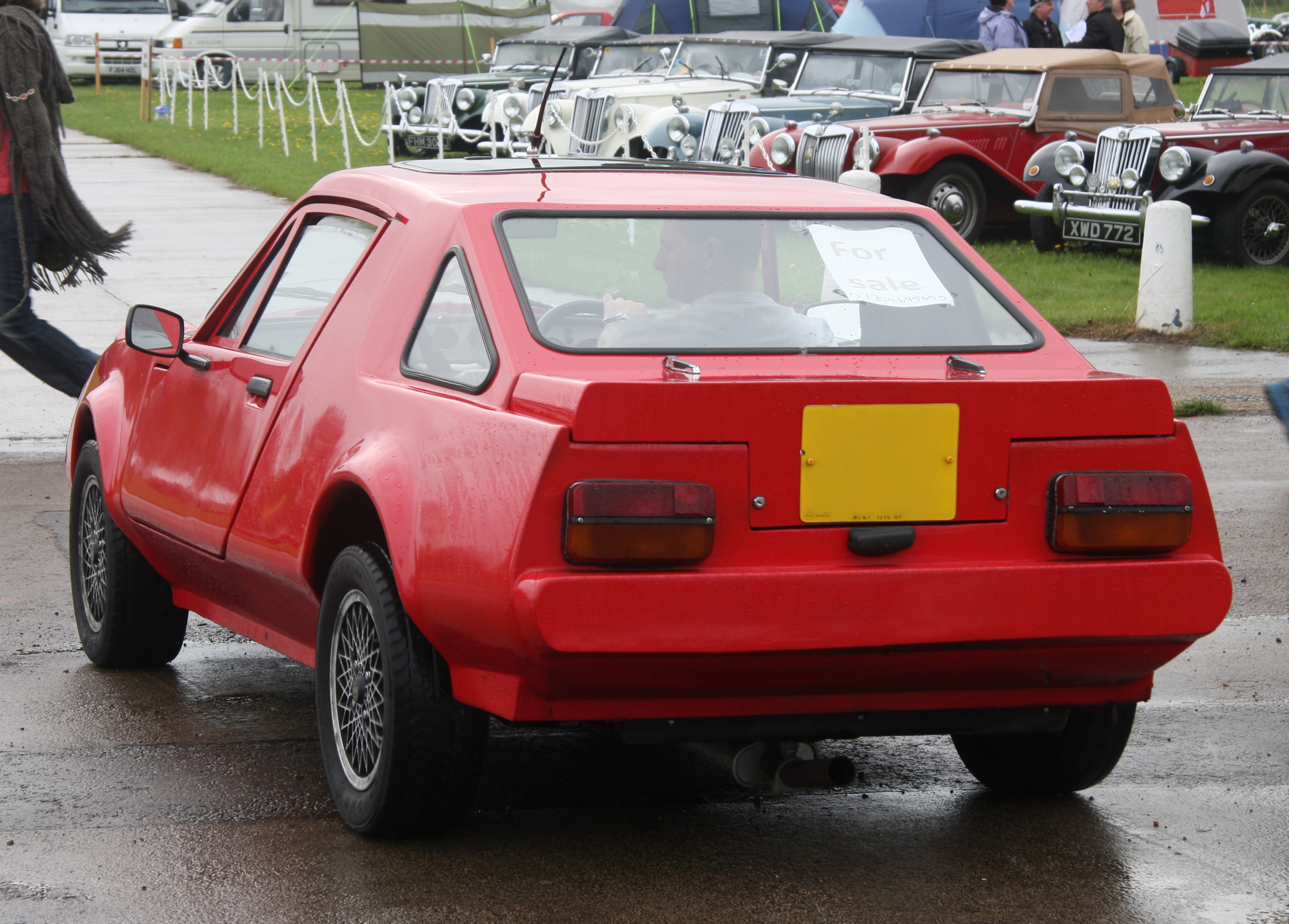 McCoy - kit car on Mini basis, using a copy of a Clan Crusader bodyshell. This one sits on Mini 1275GT underpinnings.